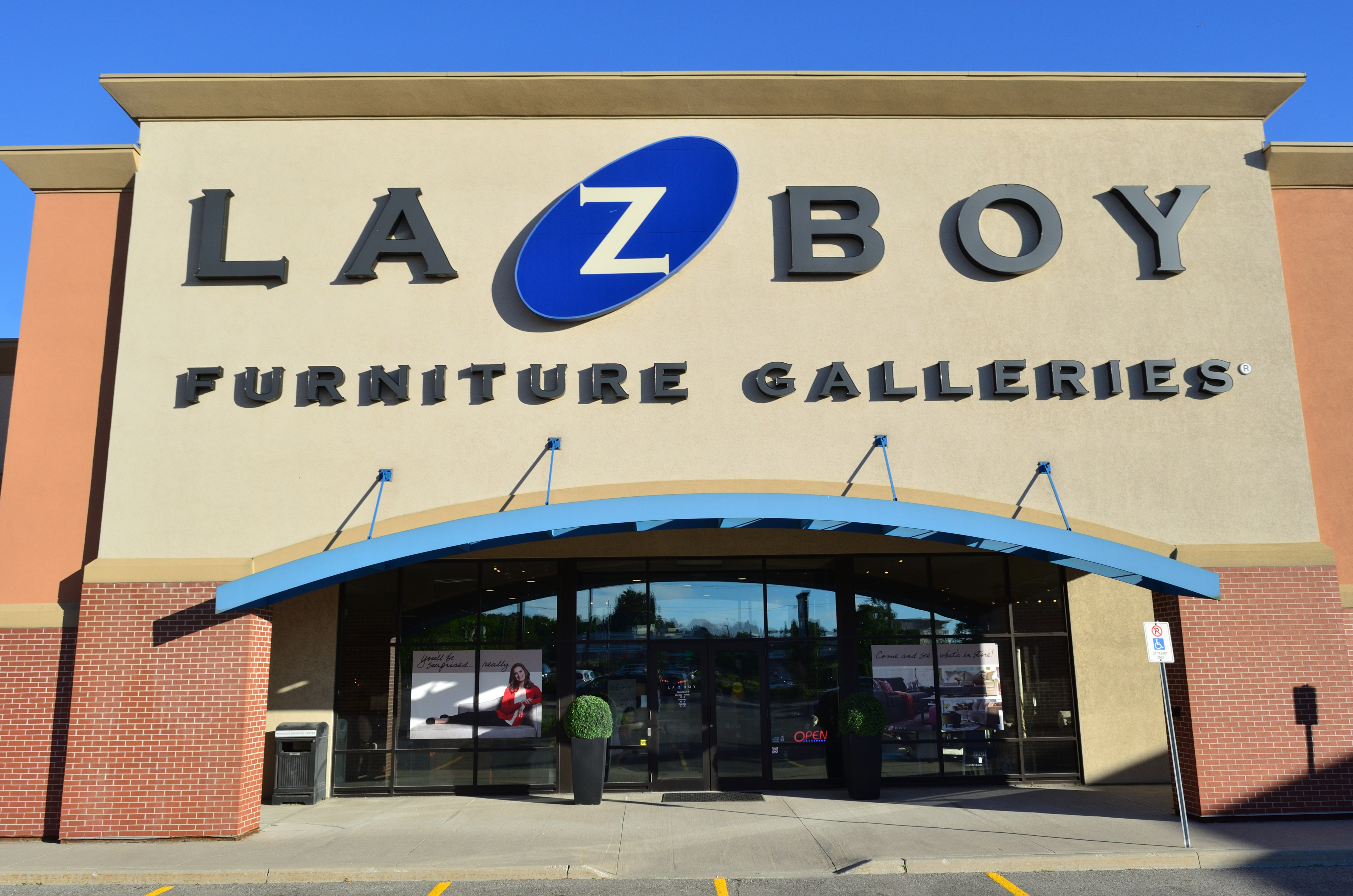 La-Z-Boy 3083 Highway 7 East, Markham